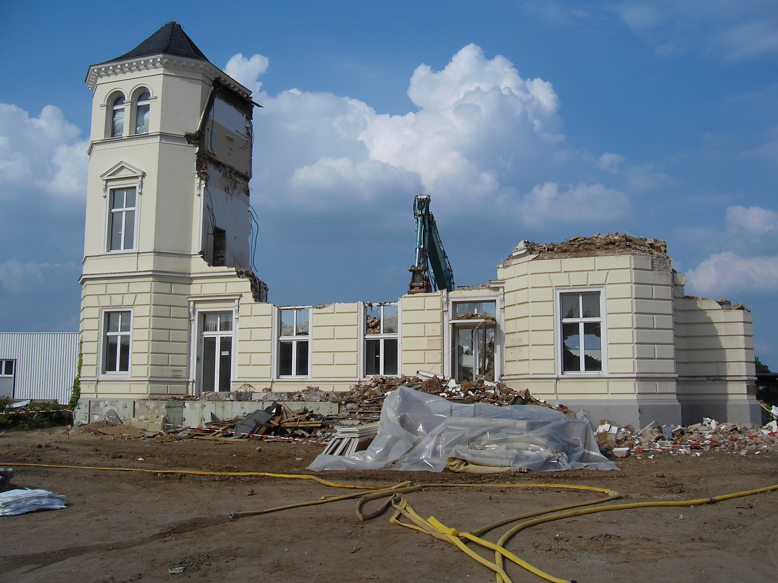 Dahm Villa on June 29, 2006, partly demolished.